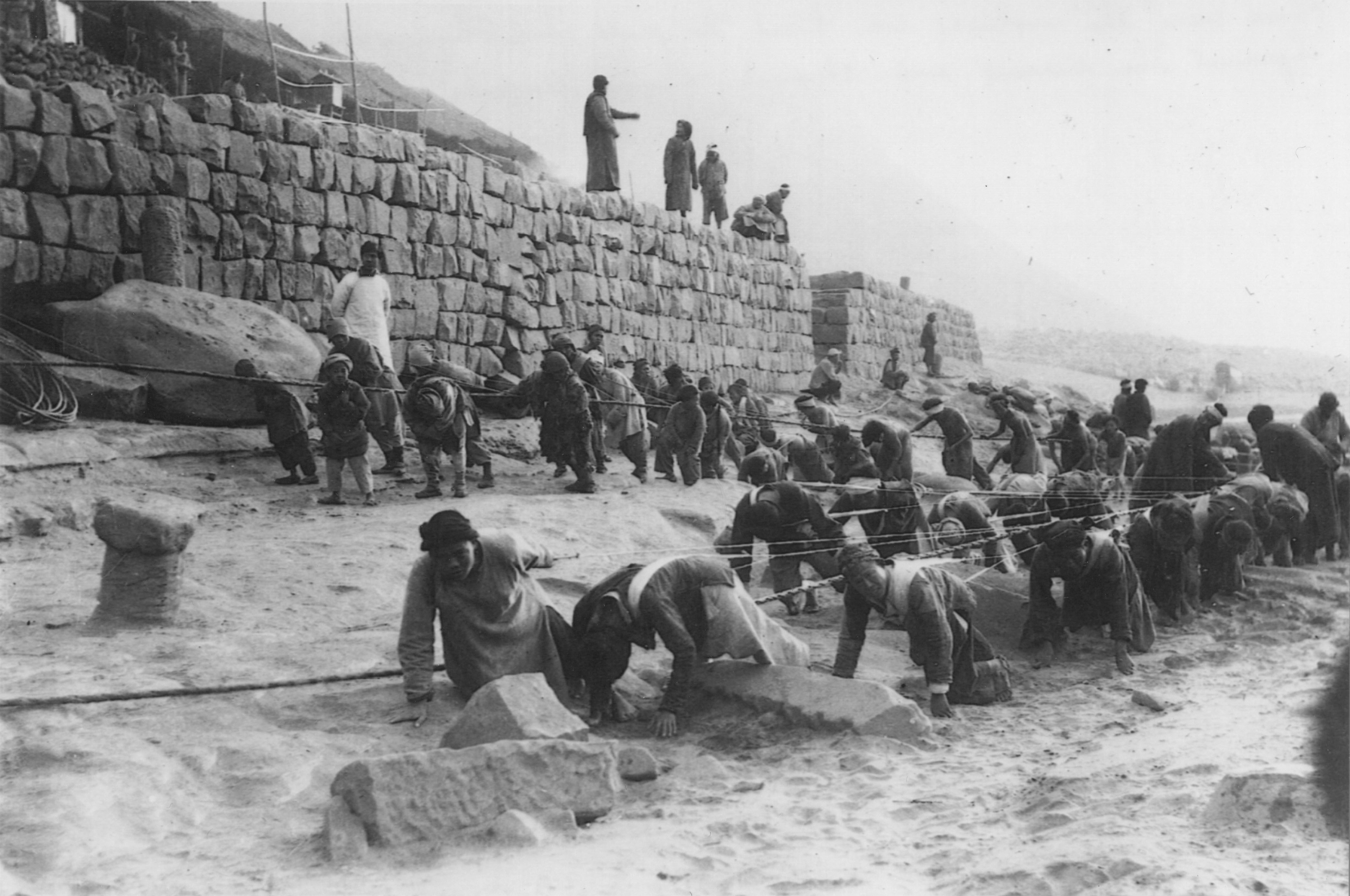 Trackers pulling houseboat through rapids on the Yangtze River. Inscription on back claims 1925 or 1926, but this picture was published in 1913.